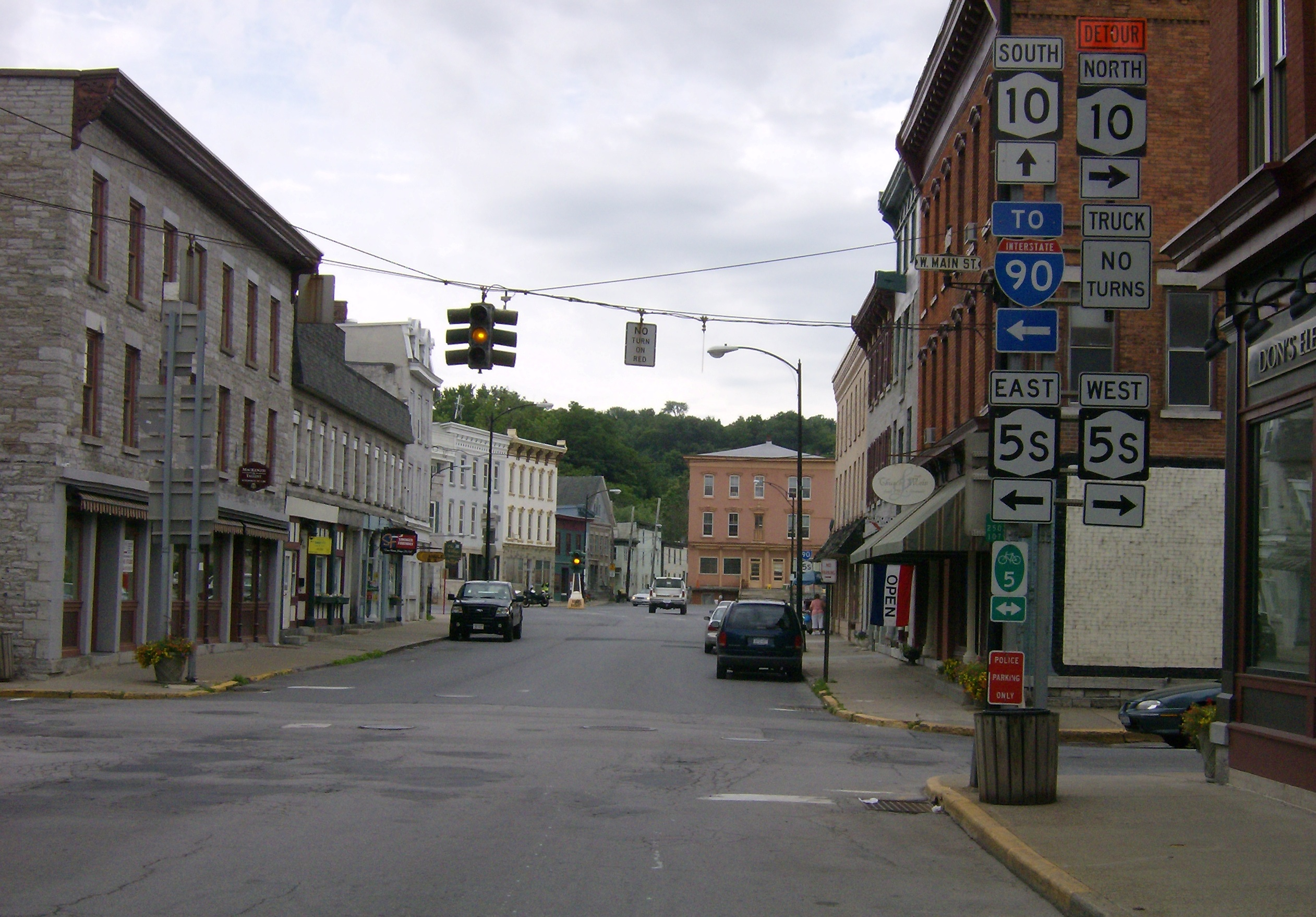 Route 10 as Church Street southbound, at intersection with Route 5S as Main Street, with Dummy Light in the background. Note the two traffic signals are synchronized.